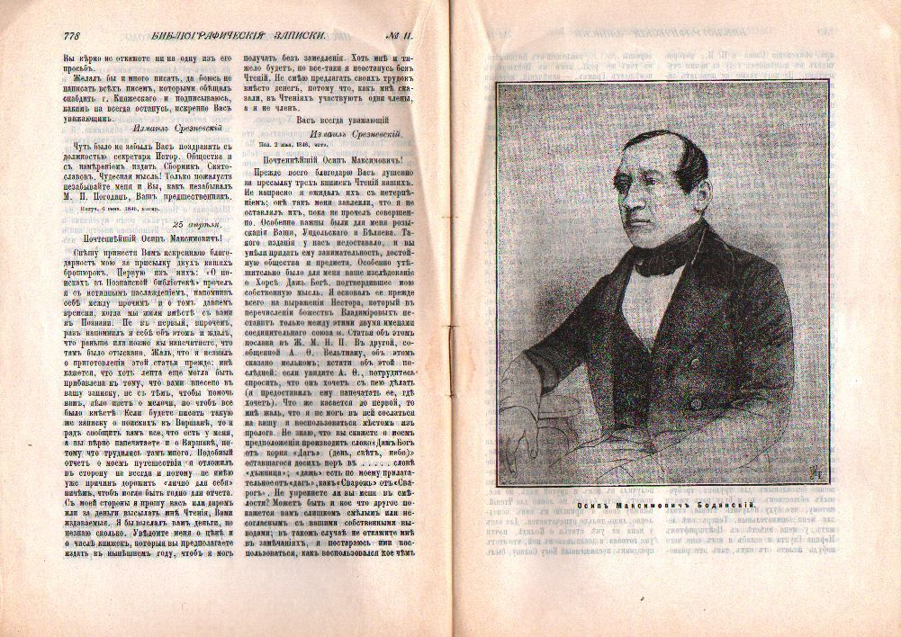 А "Bibliographics annals" magazine with Josef Bodjansky and Ismail Sreznevsky correspondence